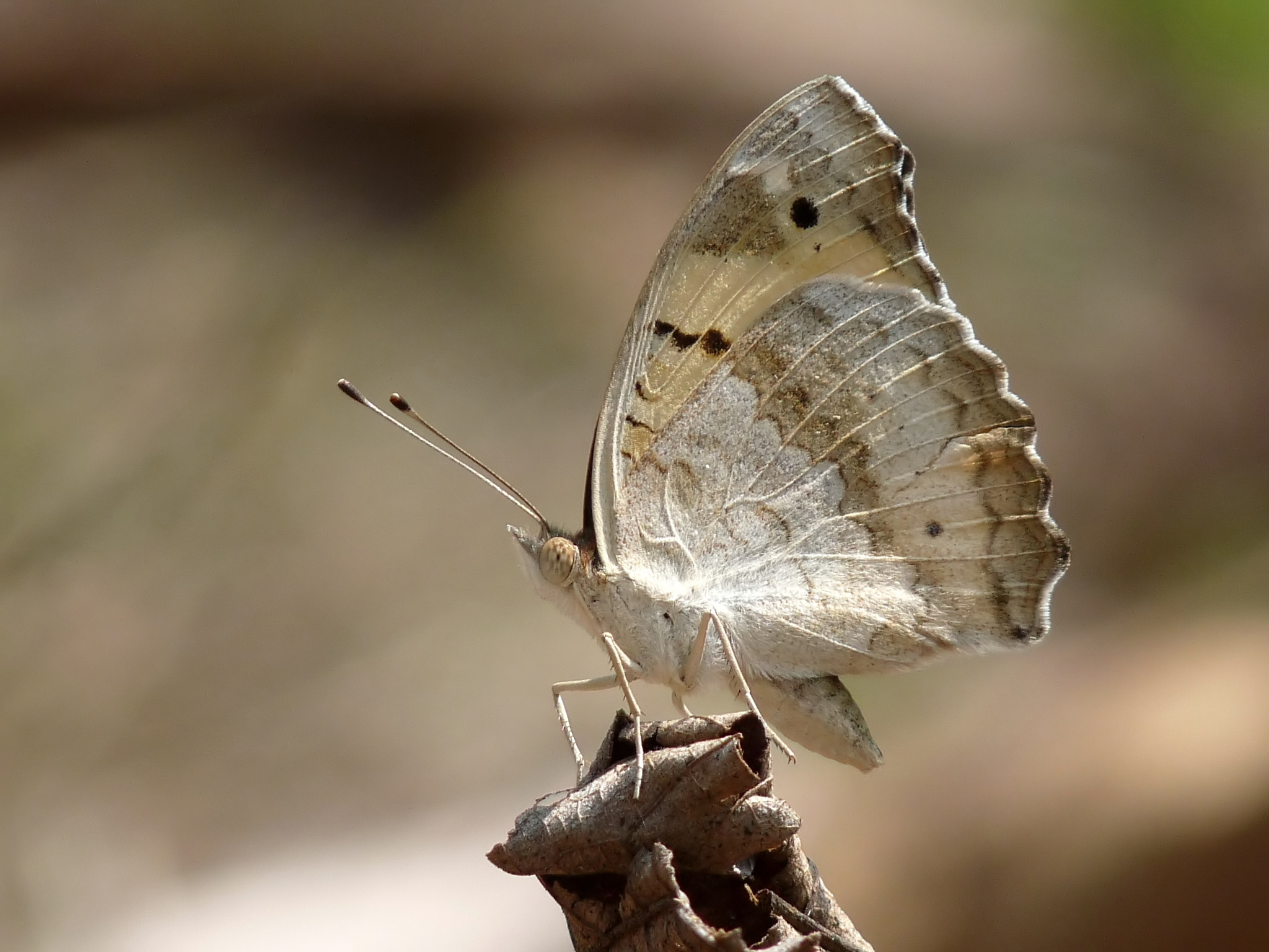 Junonia hierta"', Yellow Pansy, is a species of nymphalid butterfly found in the Palaeotropics. It is usually seen in open scrub and grassland habitats. Taken at Kadavoor, Kerala, India